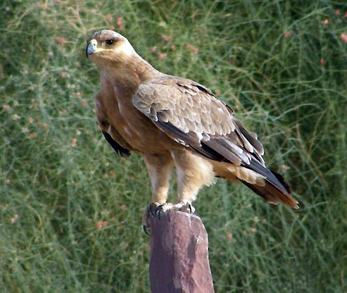 Steppe Eagle Aquila nipalensis Family Accipitridae, Aves Eagle seen perched on fence/post/electric pole on 13 Jun 06. Bird photographed in Pokaran, district Jaisalmer, Rajasthan, India